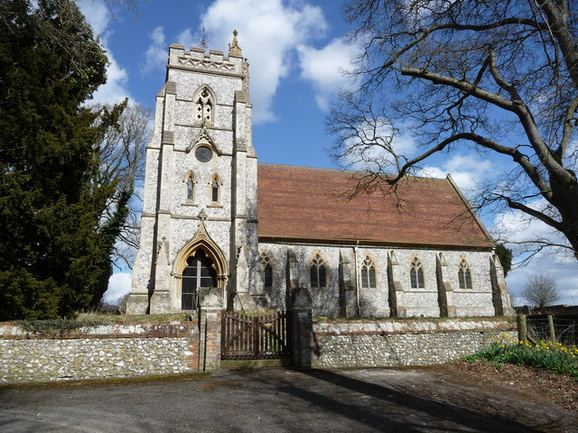 Christ Church parish church, Fosbury, Wiltshire, seen from the south. The church was built 1854–56 and has been redundant since the late 1970s.